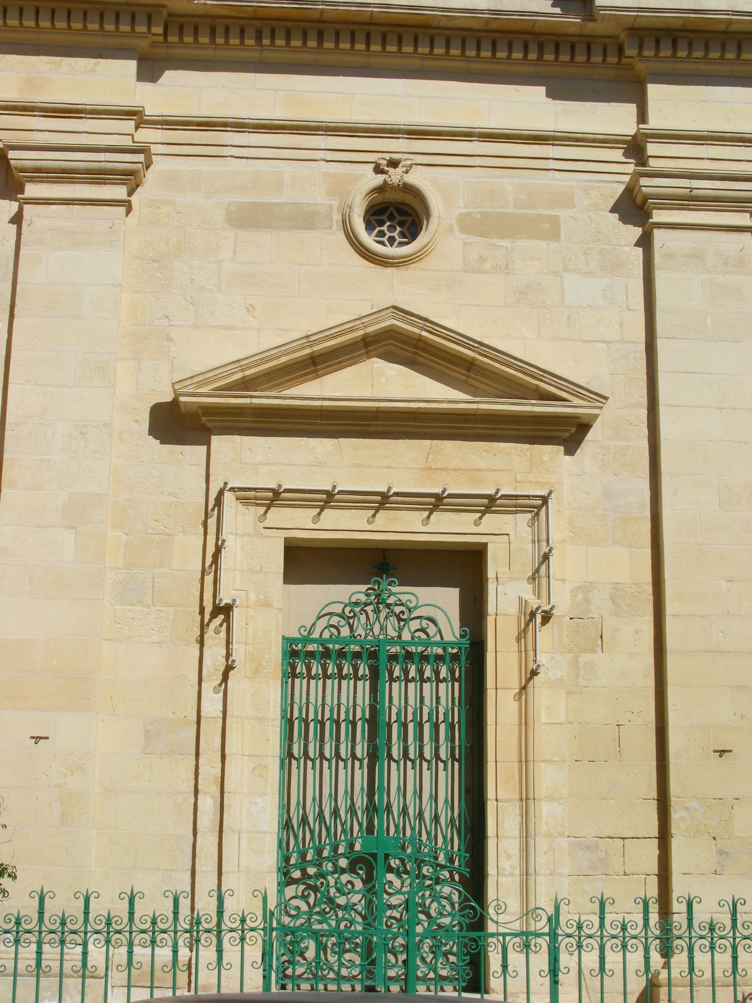 Church of Assumption Virgin Mary, Tarxien, Malta (main door)